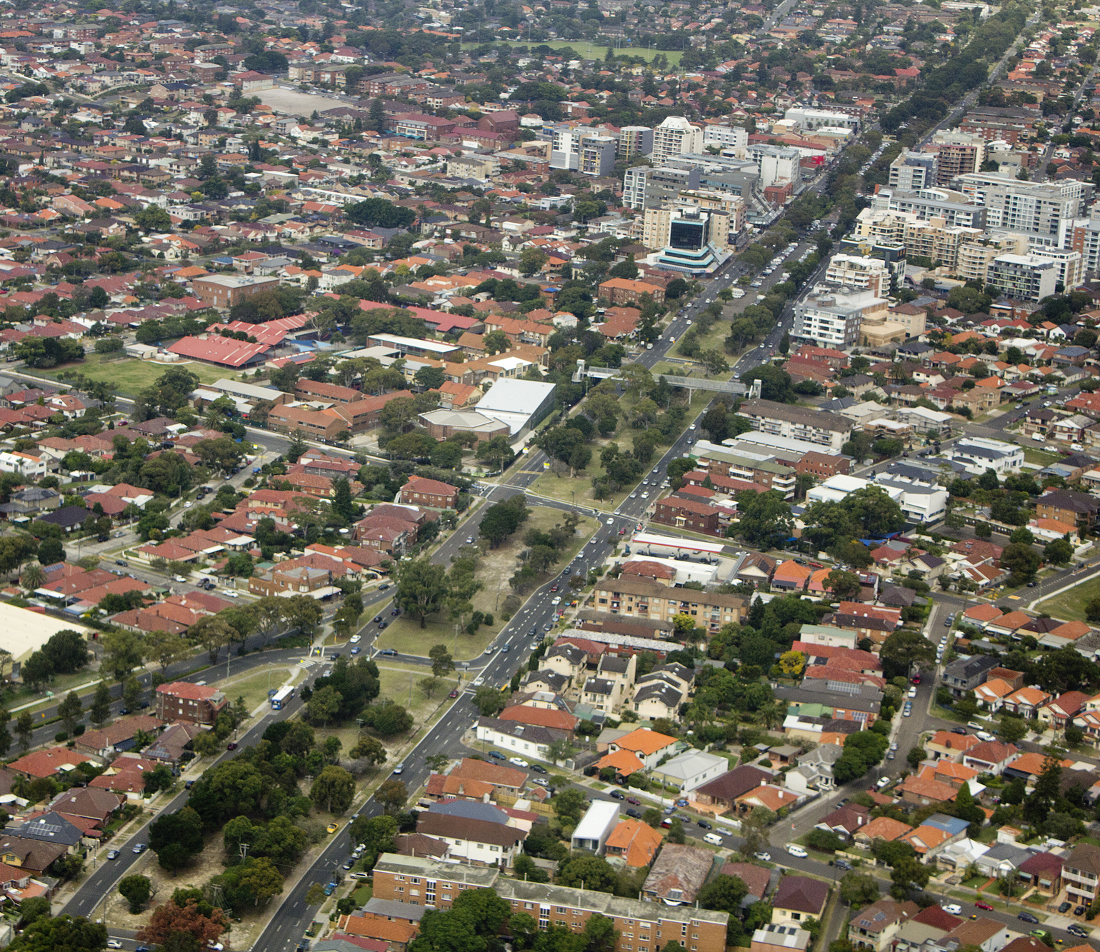 Aerial view of Anzac Parade showing the wide median.